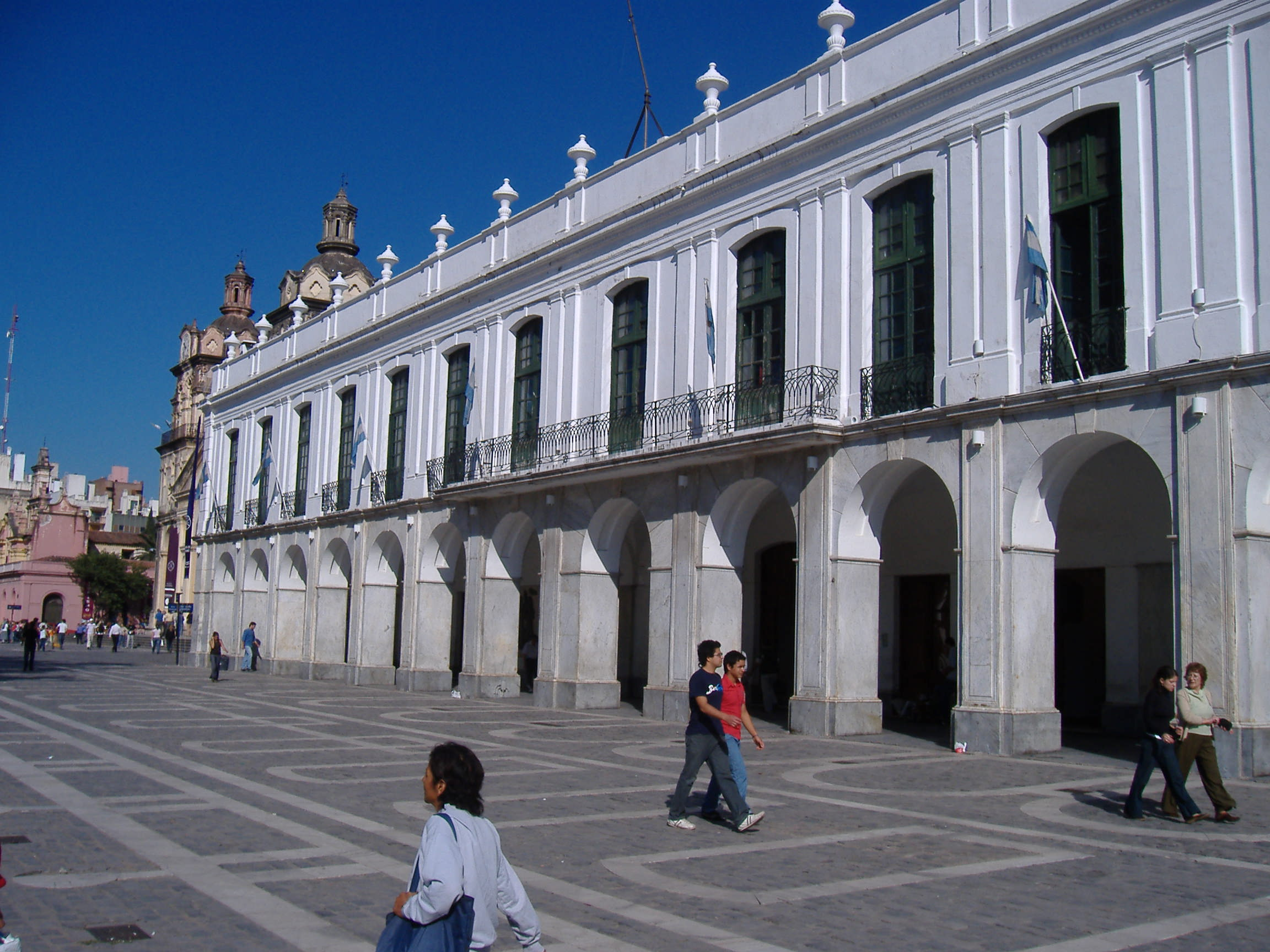 The Cabildo (former government house in colonial times) of the city of Córdoba, Argentina, dating back to the 16th century.